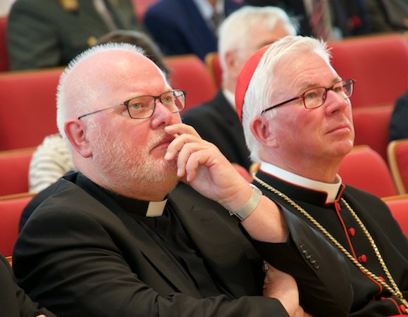 Festakt und Abschluss der Salzburger Hochschulwochen 2016 mit Kardinal Reinhard Marx und Erzbischof Franz Lackner Personality rights warningAlthough this work is freely licensed or in the public domain, the person(s) shown may have rights that legally restrict certain re-uses unless those depicted consent to such uses. In these cases, a model release or other evidence of consent could protect you from infringement claims.